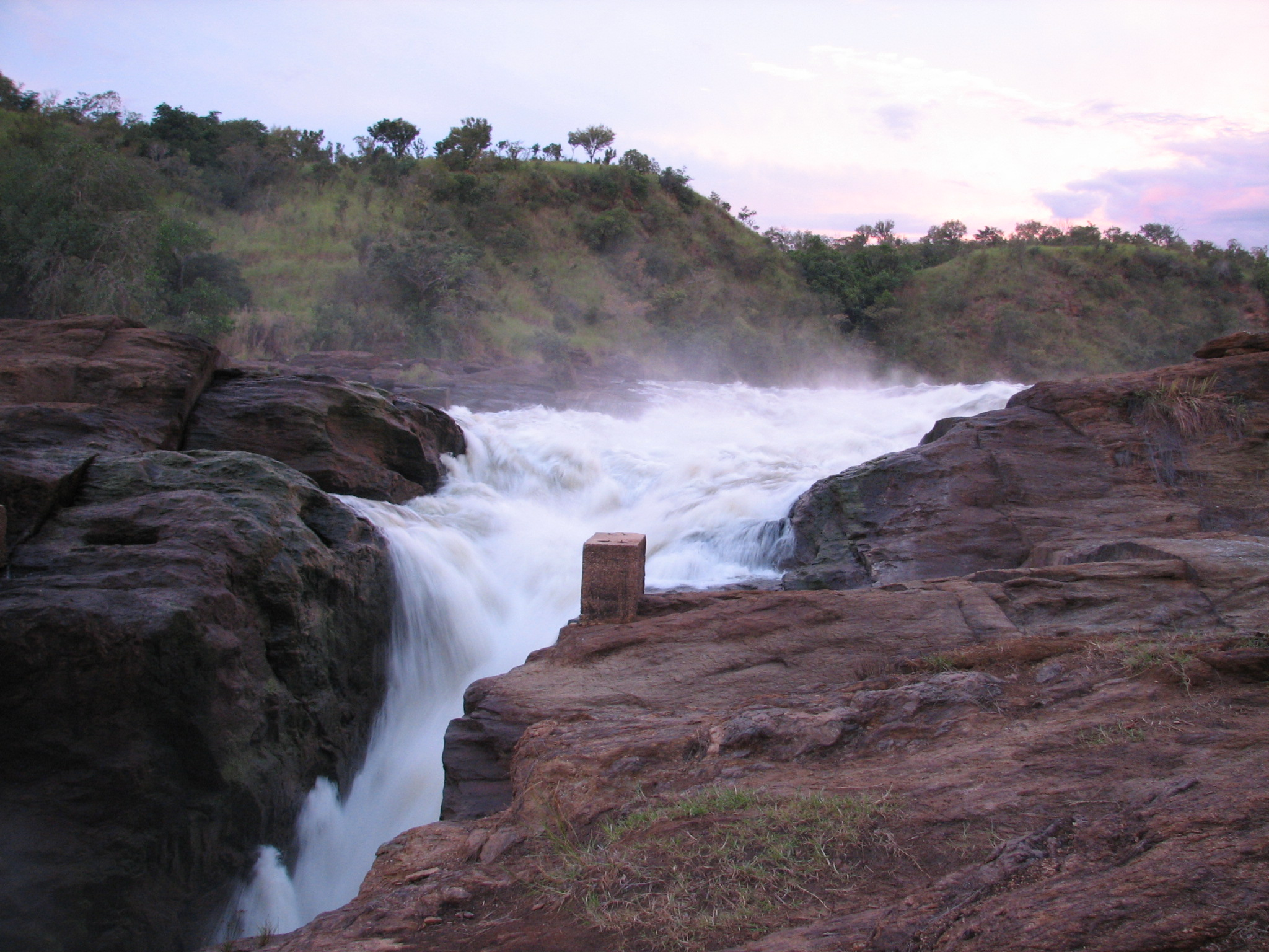 Top of Murchison Falls